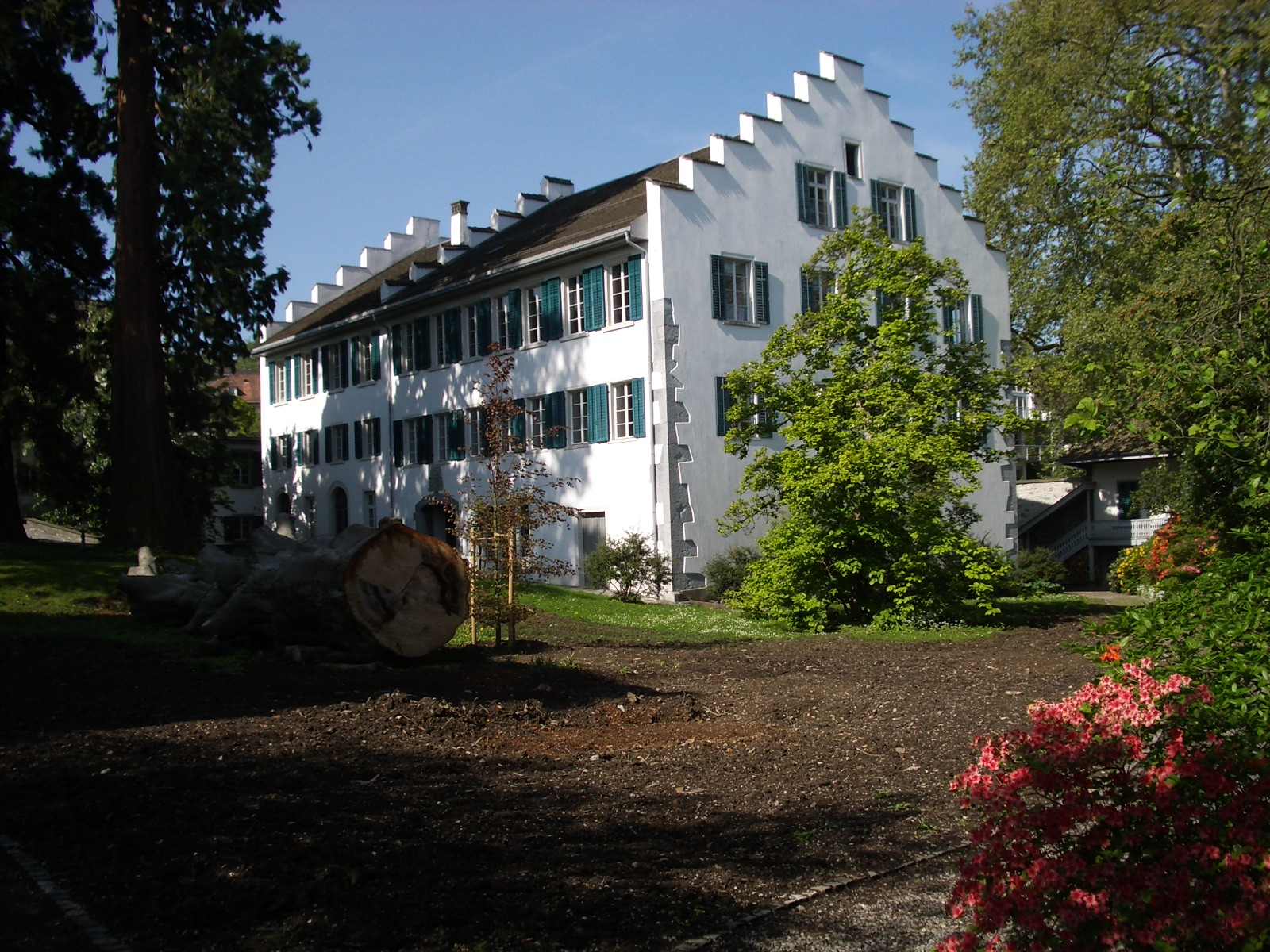 Wädenswil ZH, Switzerland